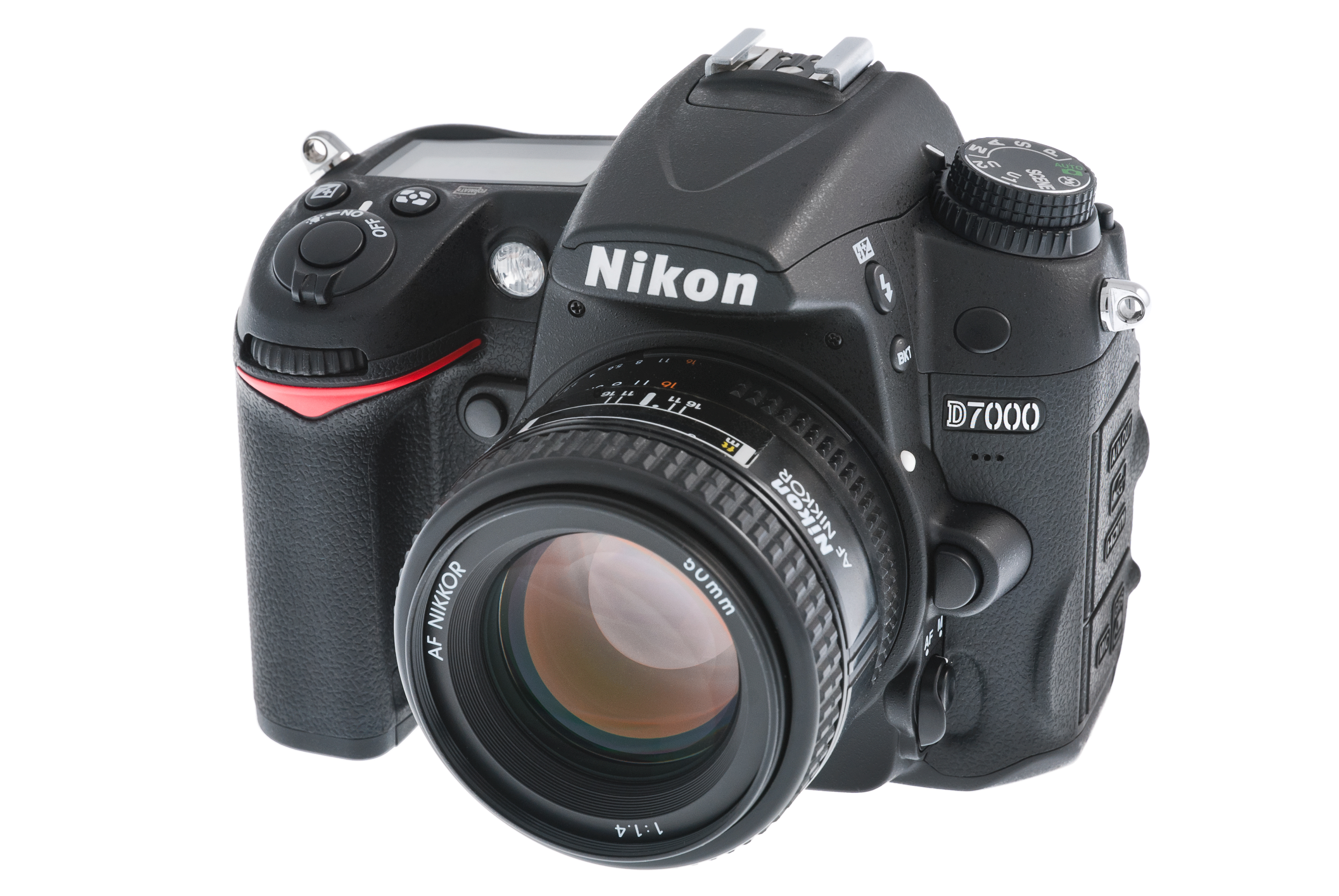 The Nikon D7000 is a 16.2 megapixel digital single-lens reflex camera. In the picture it is shown with a 50mm/1.4 AF-D NIKKOR lens.